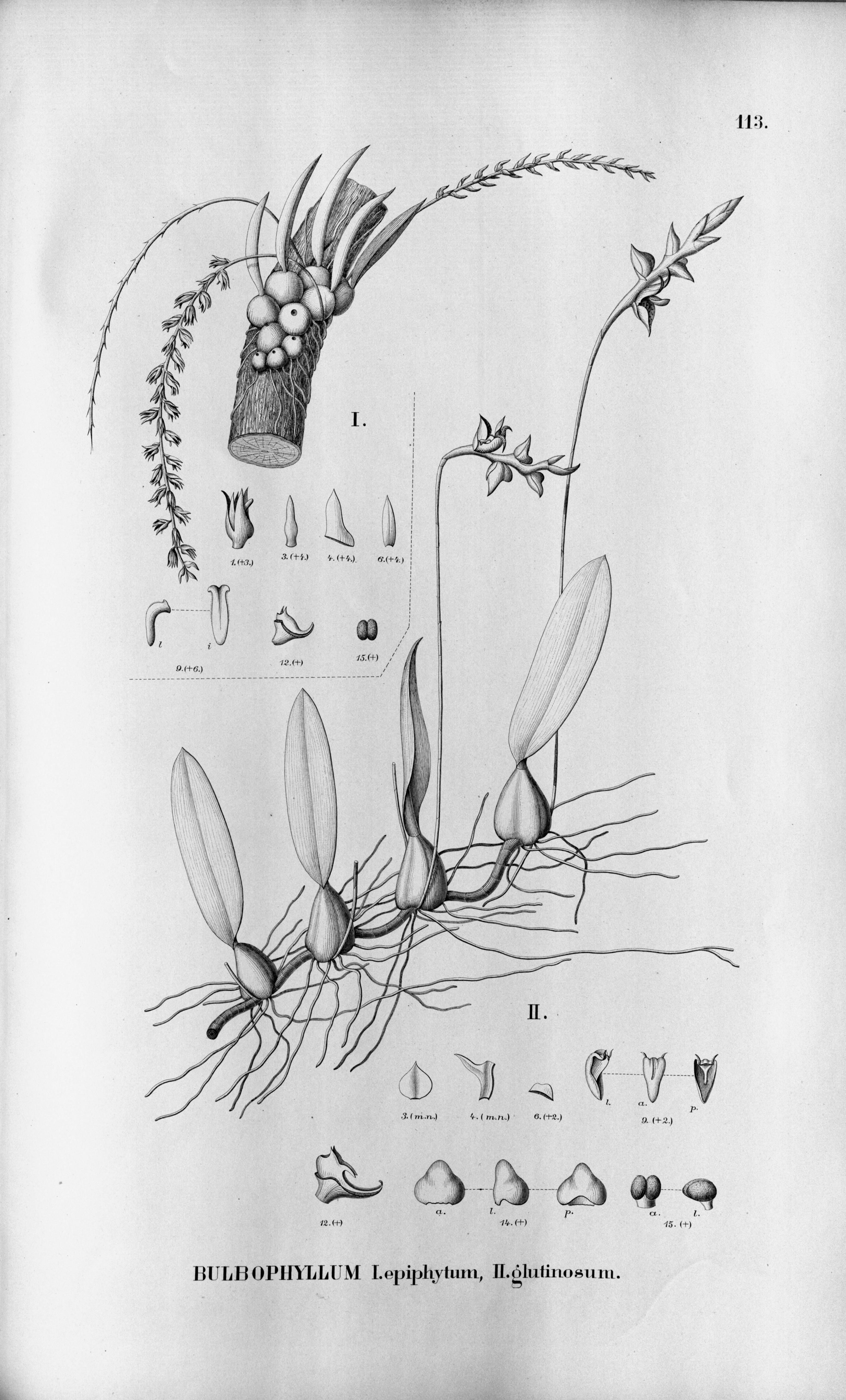 Illustration of: I. Bulbophyllum epiphytum II. Bulbophyllum glutinosum